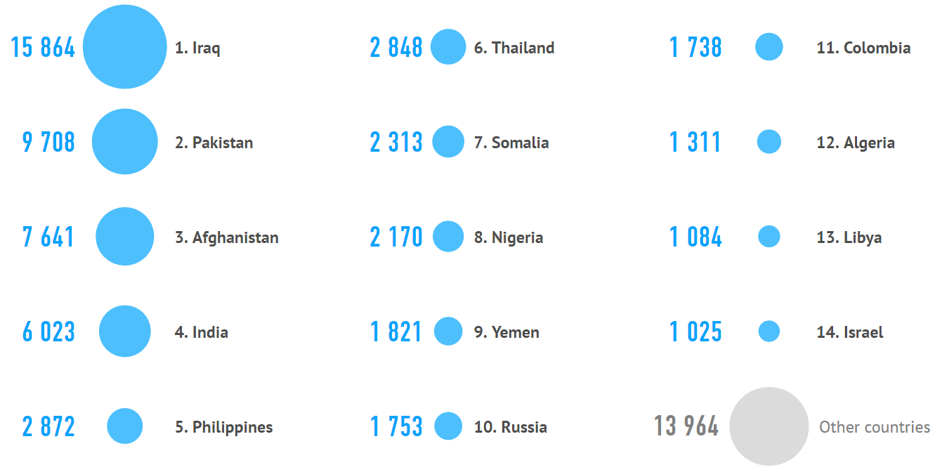 The number of terrorist attacks 2000-2014 (Top 10 Countries). Base for terrorist acts of Maryland University . The database includes data for all terrorist acts in the world from 1970 to 2014.